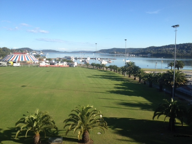 Taken from Central Coast Leagues Club looking south over Brisbane Water. NB: The circus tents.